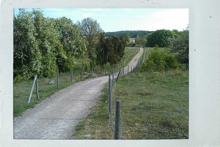 Björnön, Västerås, Sweden